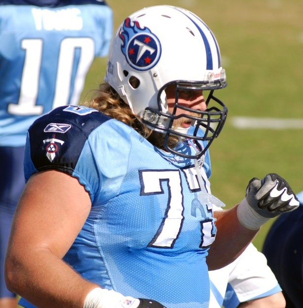 Tennessee Titans guard Jake Scott on the sidelines during the November 2, 2008 game against the Green Bay Packers at LP Field.